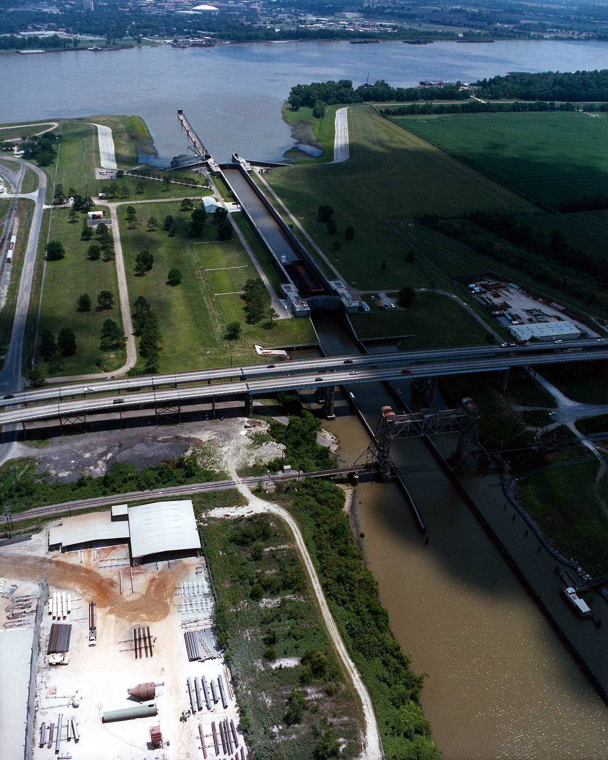 The Port Allen Lock at Port Allen, Louisiana, USA. Port Allen lies across the Mississippi River on the west side opposite Baton Rouge. The Port Allen Lock is a gateway to the Gulf Intracoastal Waterway. View is to the east across the Mississippi. Louisiana State Route 1 crosses the canal next to the lock.